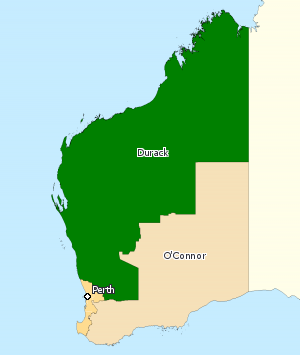 Incorporates or developed using Administrative Boundaries ©PSMA Australia Limited licensed by the Commonwealth of Australia under Creative Commons Attribution 4.0 International licence (CC BY 4.0). Derived from State and Territory Boundaries from the Australian Bureau of Statistics under Creative Commons Attribution 2.5 Australia license (CC BY 2.5 AU)